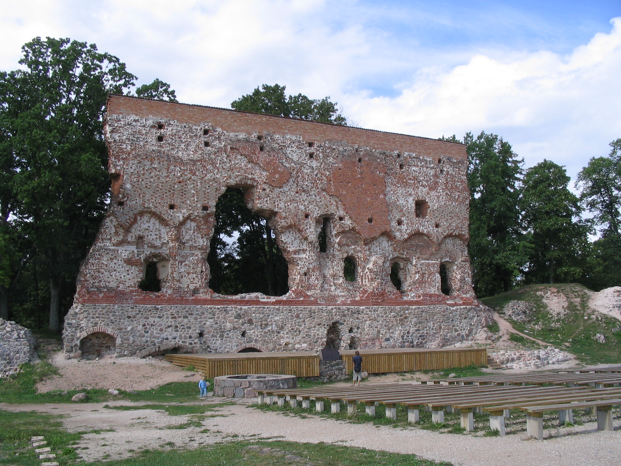 Viljandi Castle. The western wall of the convent building, seen from the central courtyard. This is the tallest still standing construction.